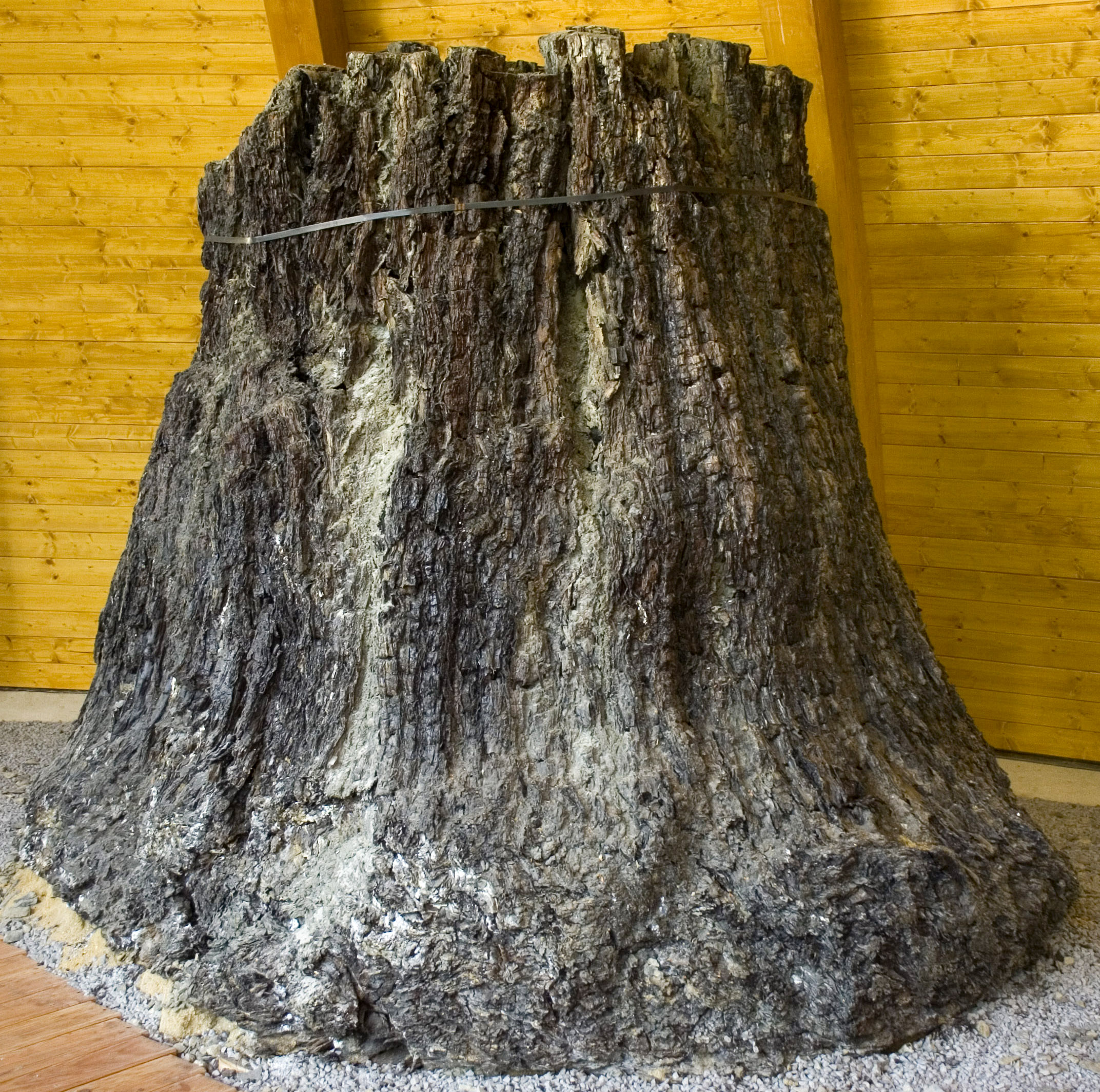 The Bükkábrány found fossilized swamp conifers (Taxodium), a member of the group. Height approx. 3m. Forbes currently Ipolytarnóc Pine Exhibition can be seen Taxodium - 7,5 millio years Now Ipolytarnóc, Hungary